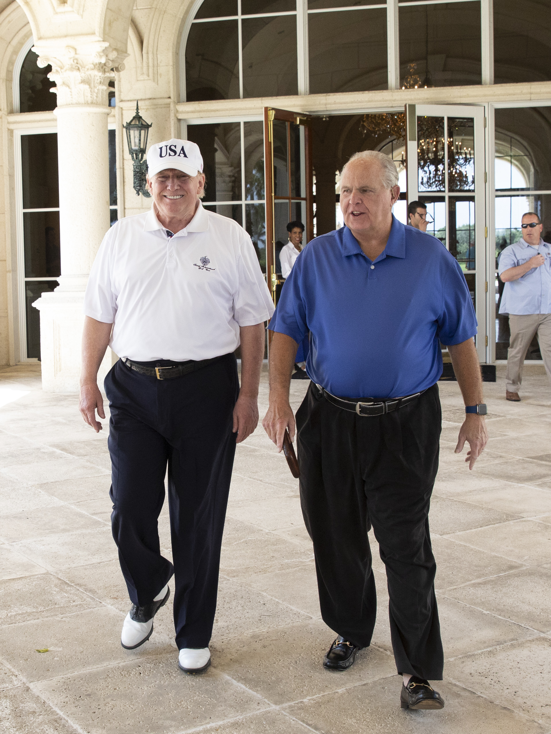 President Donald J. Trump and radio commentator Rush Limbaugh walk together Friday, April 19, 2019, following their round of golf at the Trump International Golf Club in West Palm Beach, Fla. (Official White House Photo by Joyce N. Boghosian)